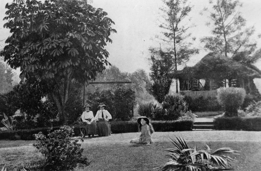 Child sitting on a lawn at Bellevue Station, ca. 1912 Child sitting on a lawn and two women sitting on a bench in a garden at Bellevue Station, ca. 1912. The child wears a hat and a dress and the women wear hats, blouses with ties, belts and skirts. The lawn is well-manicured and the trees and shrubs are well-tended. A gazebo can be seen in the background on the left.